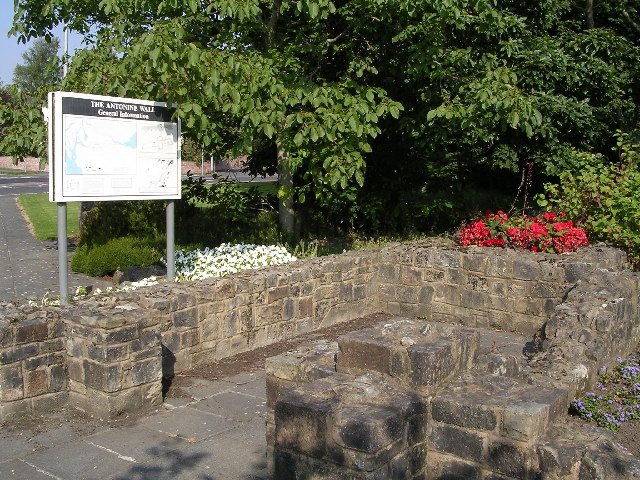 Relics of the Antonine Wall, Milngavie. Just off the Burnbrae roundabout in Milngavie is a small garden surrounding relics of the Antonine Wall, built between 140 and 142 AD. I'm not so sure these are genuine Roman relics. I'll need to read the sign next time I'm passing.